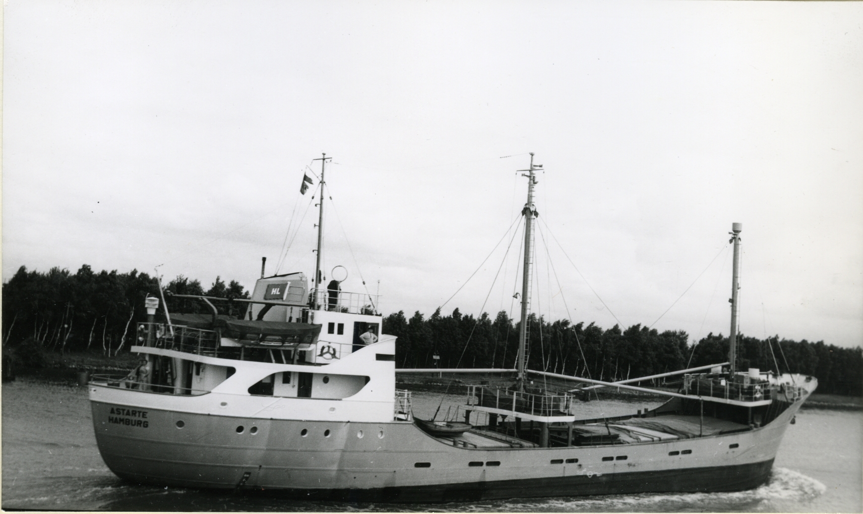 German coaster ASTARTE (IMO 5027455) built at J.J. Sietas Schiffswerft, Hamburg-Neuenfelde, in 1957 for Hinrich Lütje, Hamburg (yard № 419, 424 GRT, Sietas type A), lengthened in 1964 (499 GRT), 1970 EMMALIES FUNK (Hermann Funk, Hamburg), 18-04-1973 capsized & sank 54.30N/1.50E (Monsteras-Hull); collection J. Robert Boman (1926–2002) owned by Sjöhistoriska museet.